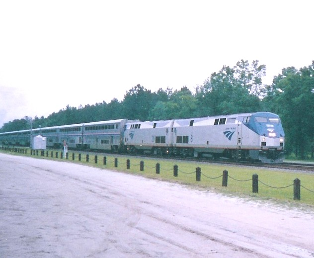 Amtrak's Auto Train passing the Railfan platform in Folkston. Jason Trew Photo